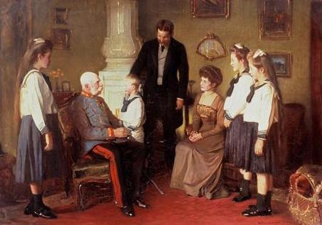 Painting showing Emperor Franz Joseph I of Austria visiting his grand-daughter Princess Elisabeth Marie of Bavaria and her family.